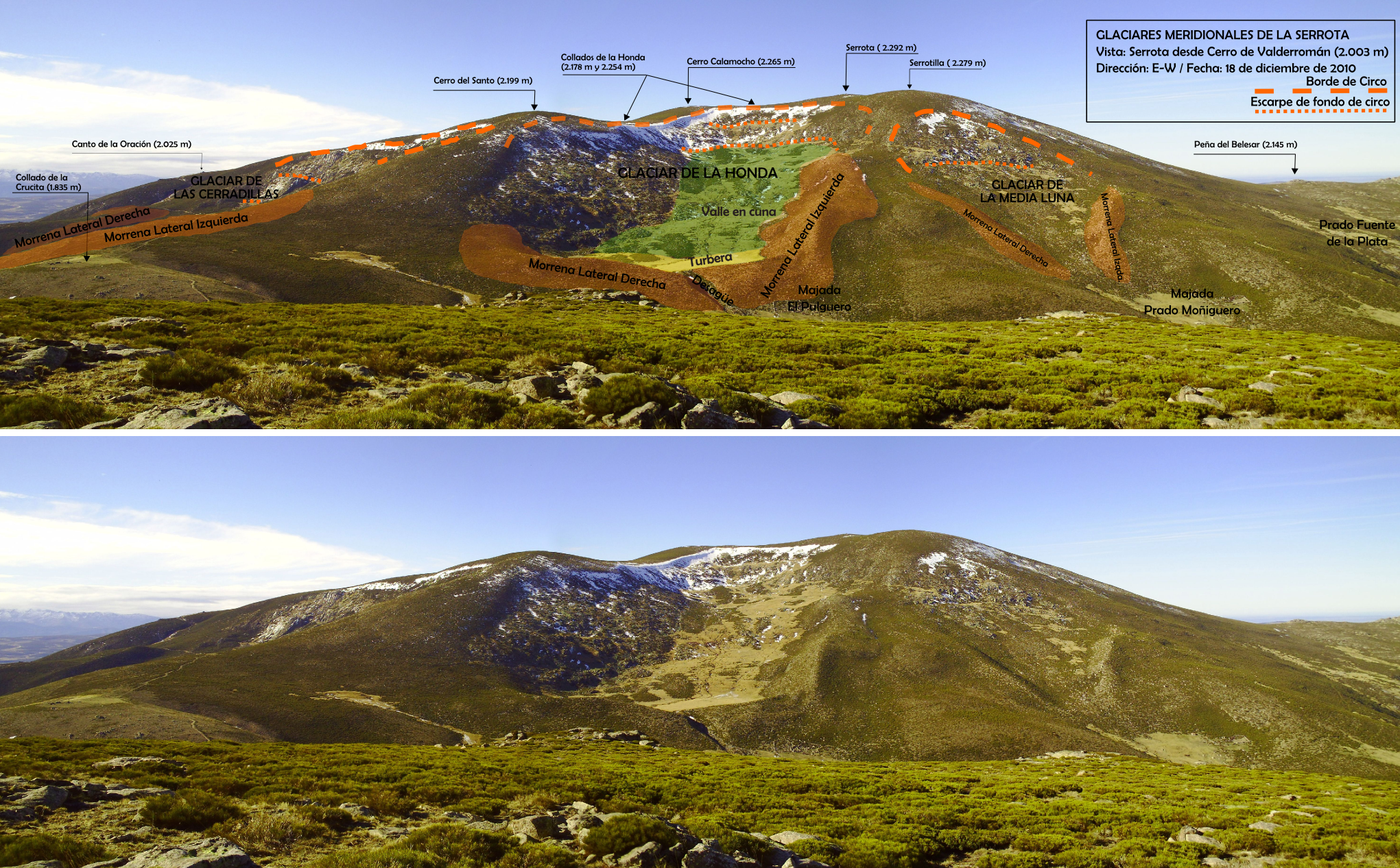 Eastern glaciers of the Serrota Range